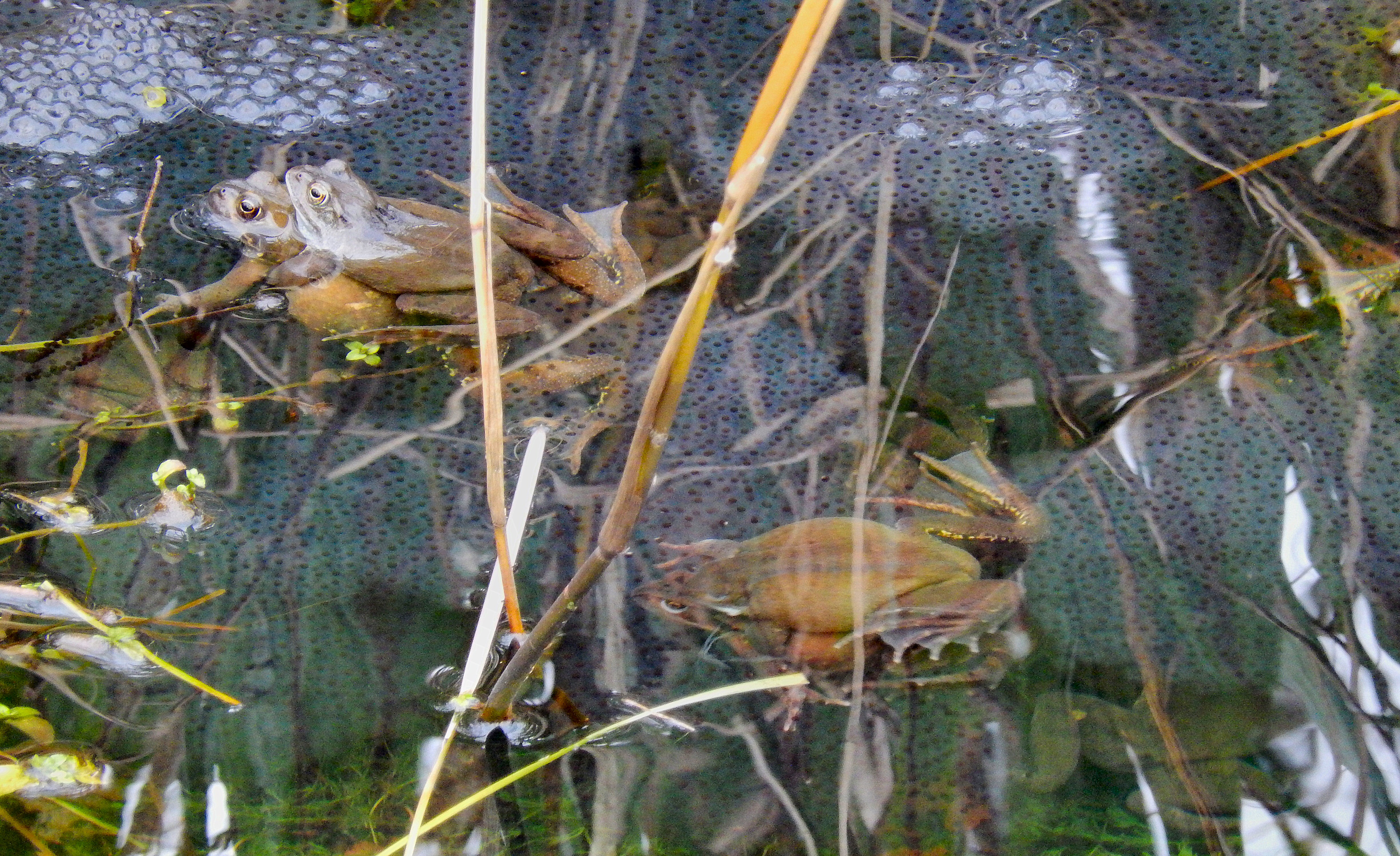 Six frogs in amplexus diving and spawning in Gunnersbury Triangle pond